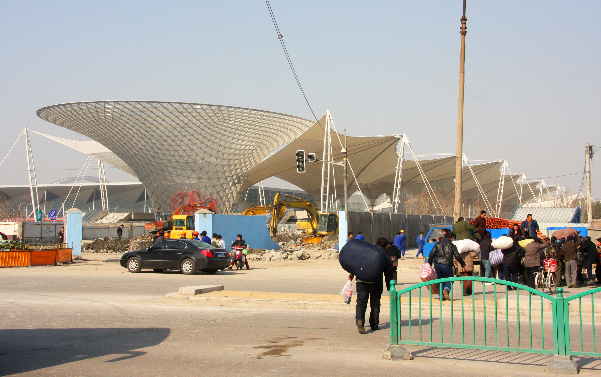 Completed construction of Expo Axis, Shanghai